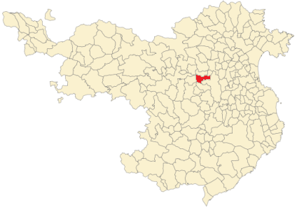 Esponellà